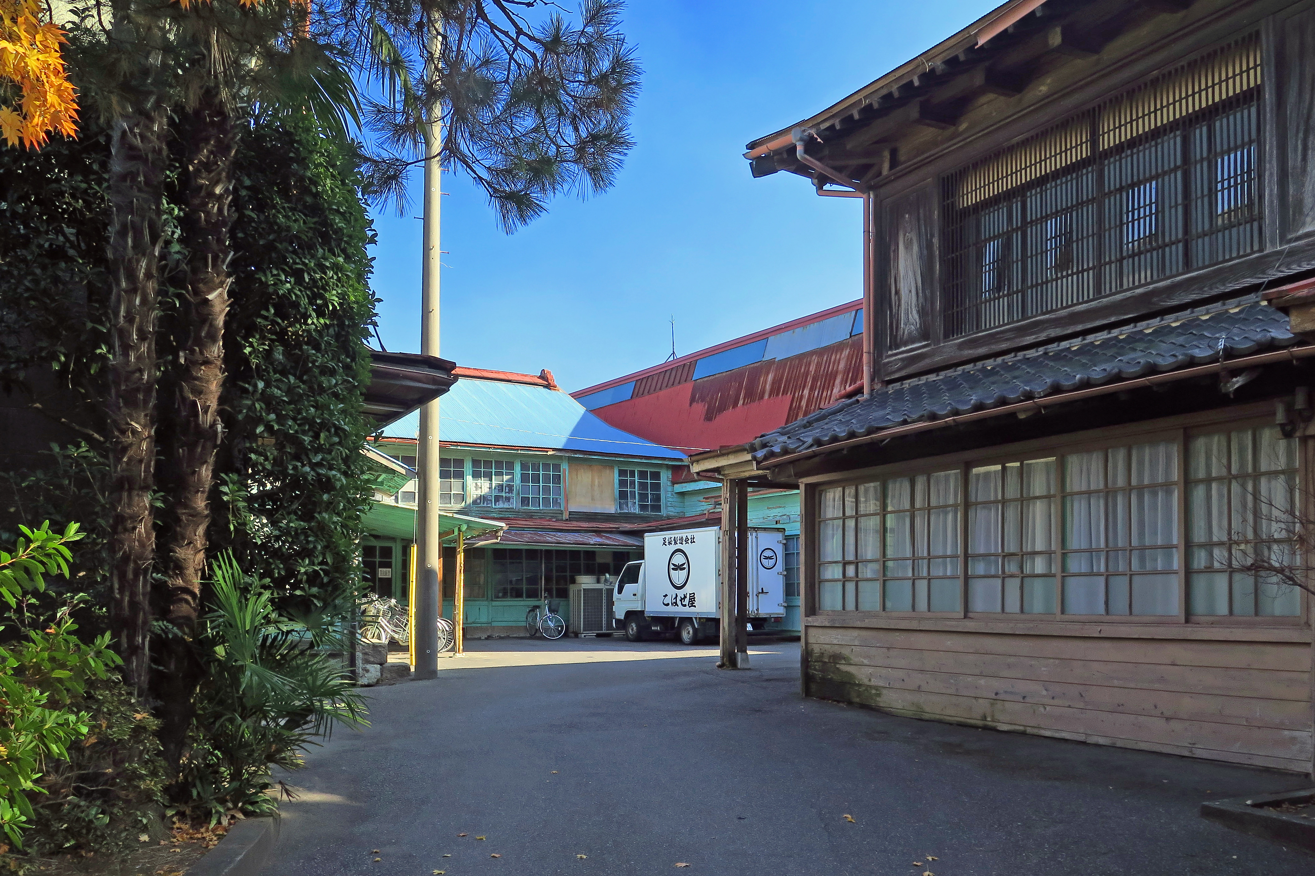 Isami Corporation School Factory in Gyoda, Saitama prefecture, Japan